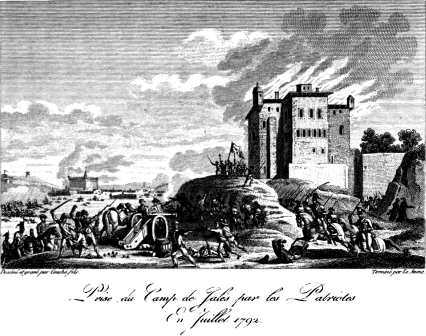 The Camps de Jalès Seized by French Revolutionary Troops in July 1792.